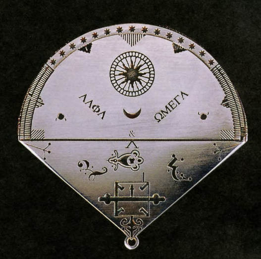 Silver talisman from the Triangular Book by Count of St. Germain. Volund Jewelry made the only known version of this artifact. Its purpose is to extend the ritual performer's life beyond 100 years.